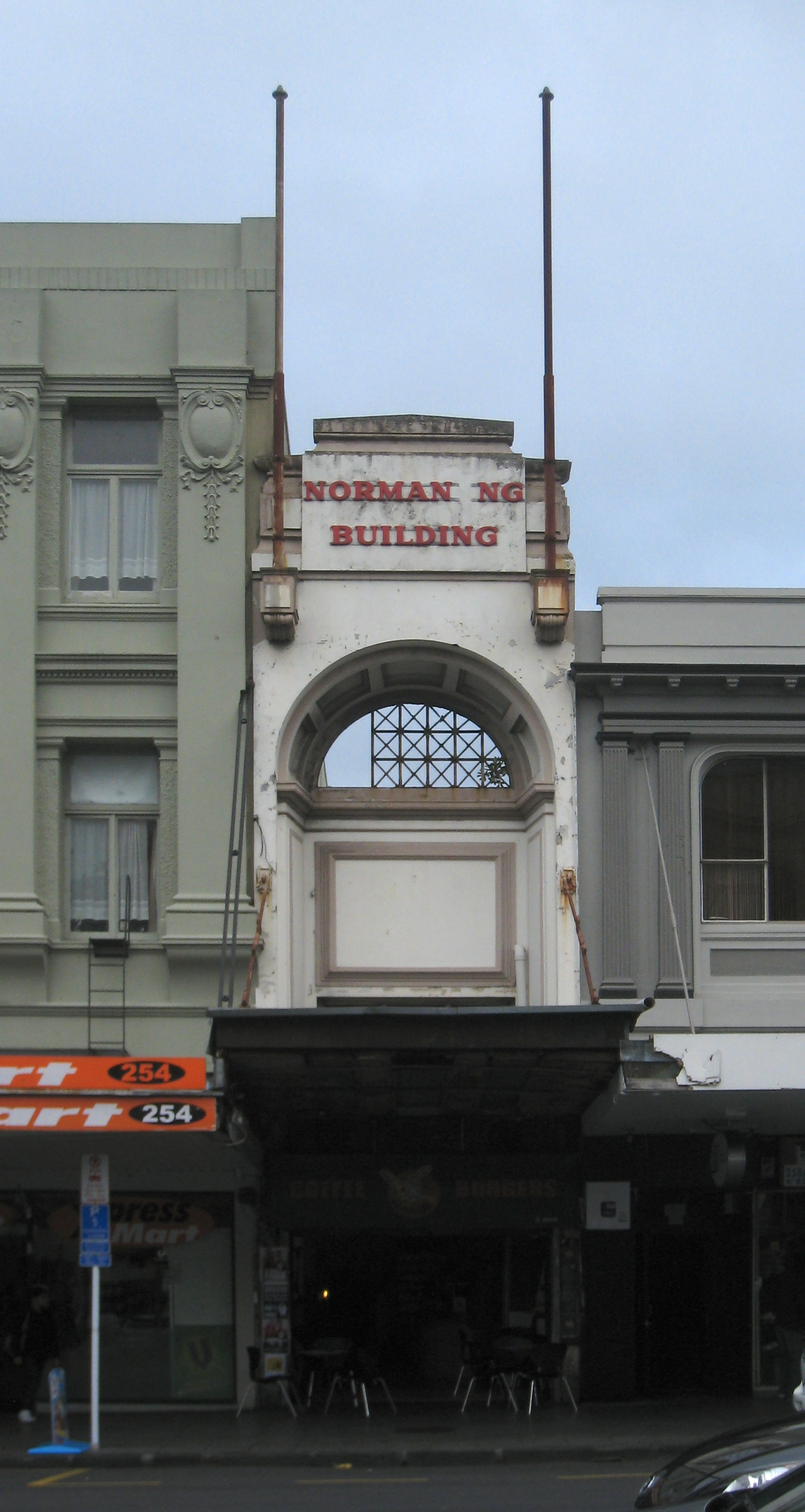 The Norman Ng building on Karangahape Rd, Auckland, New Zealand. Built in the mid 1920s, this used to be a theatre entrance of the Prince Edward Cinema [1].